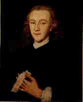 Painting of Moravian spiritual leader Christian Renatus von Zinzendorf, 1727-1752. The words on the paper he is holding say "Gebrochne Augen," "Broken eyes," referring to the belief that by looking into Christian's eyes one was seeing the eyes of Christ at the moment of his death.